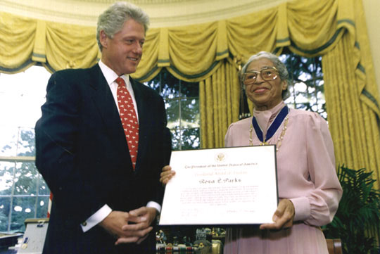 Rosa Parks receive the Presidential Medal of Freedom, the highest civilian honor given by the U.S. executive branch, from President Bill Clinton.